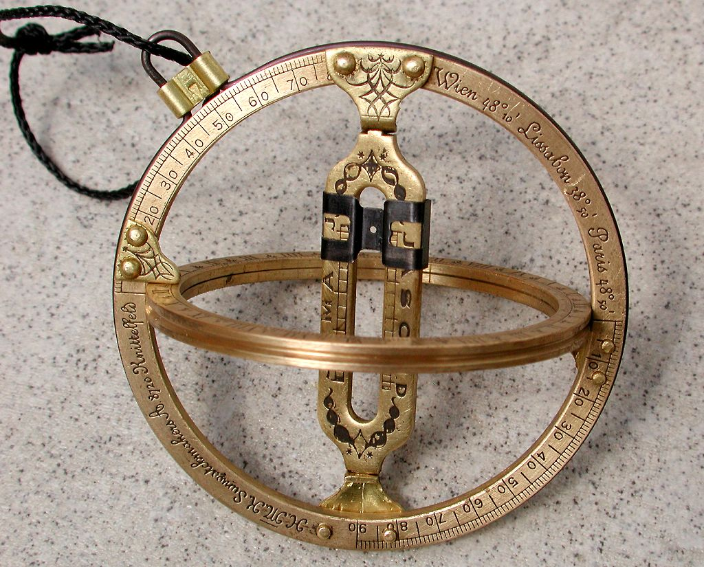 Picture of a ring (traveler's) sundial, opened in full view.